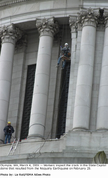 Olympia, WA, March 4, 2001 -- Workers inspect the crack in the State Capitol dome that resulted from the Nisqually Earthquake on February 28. Photo by Liz Roll/ FEMA News Photo